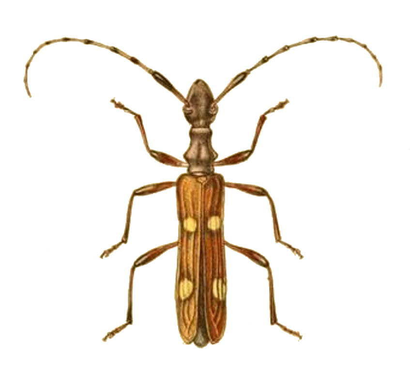 Aphneope quadrimaculata Van de Poll, 1891